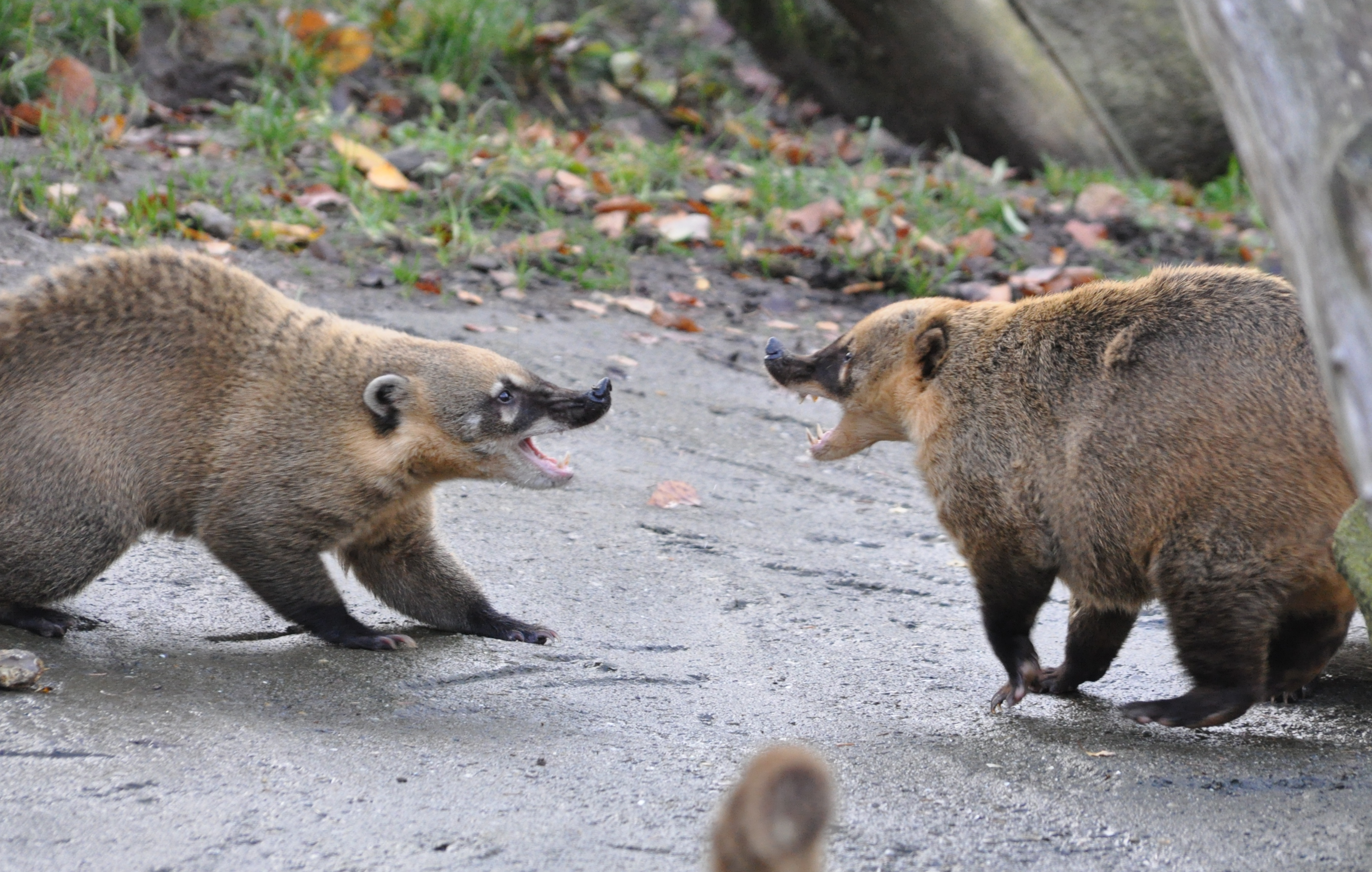 Ring-tailed Coati (Nasua nasua) in the Lüneburg Heath wildlife park, Germany.